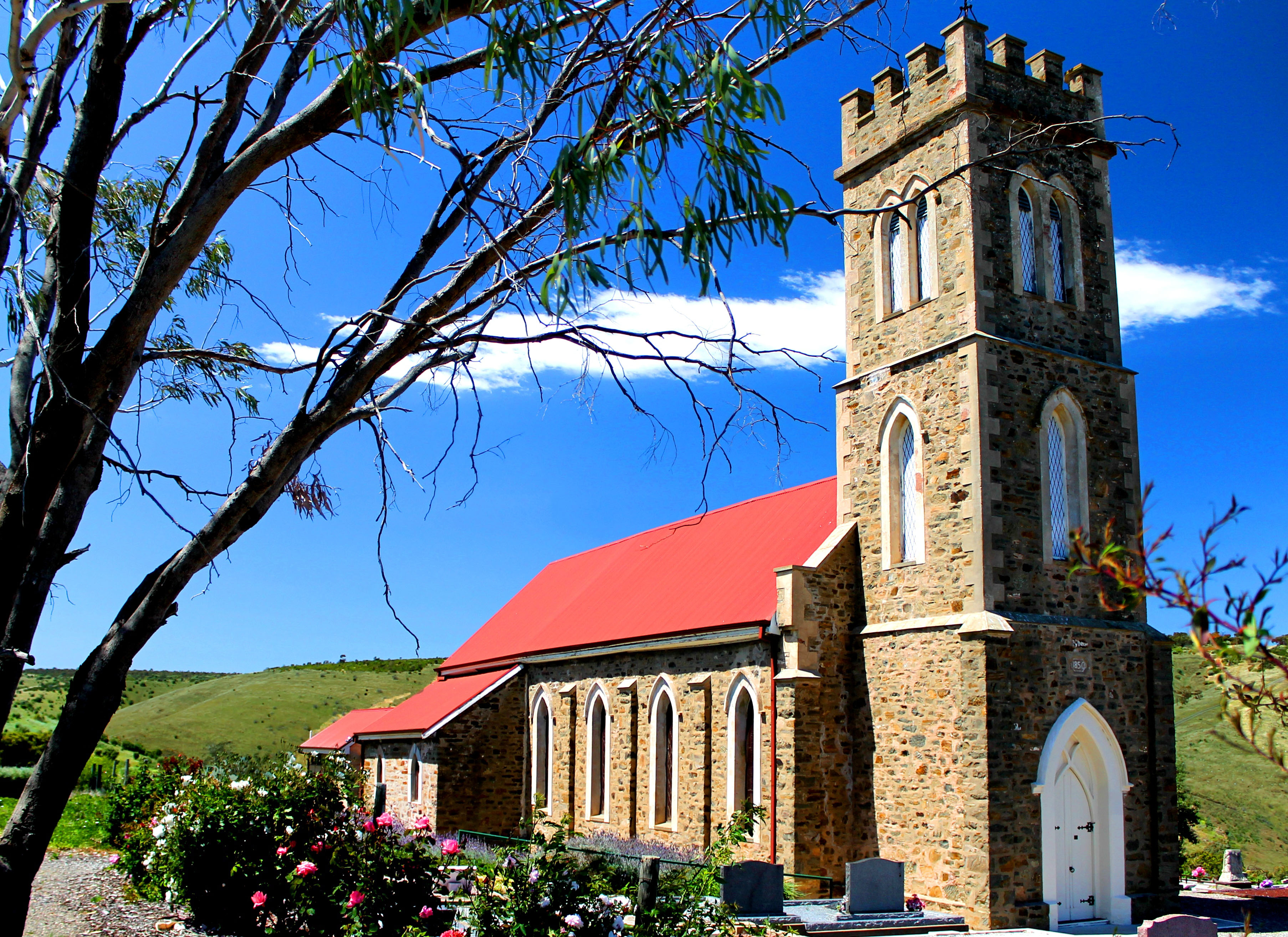 St. Philip and St. James Anglican Church, Old Noarlunga, South Australia.